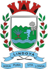 Coat of arms of Lindóia city, São Paulo state, Brazil